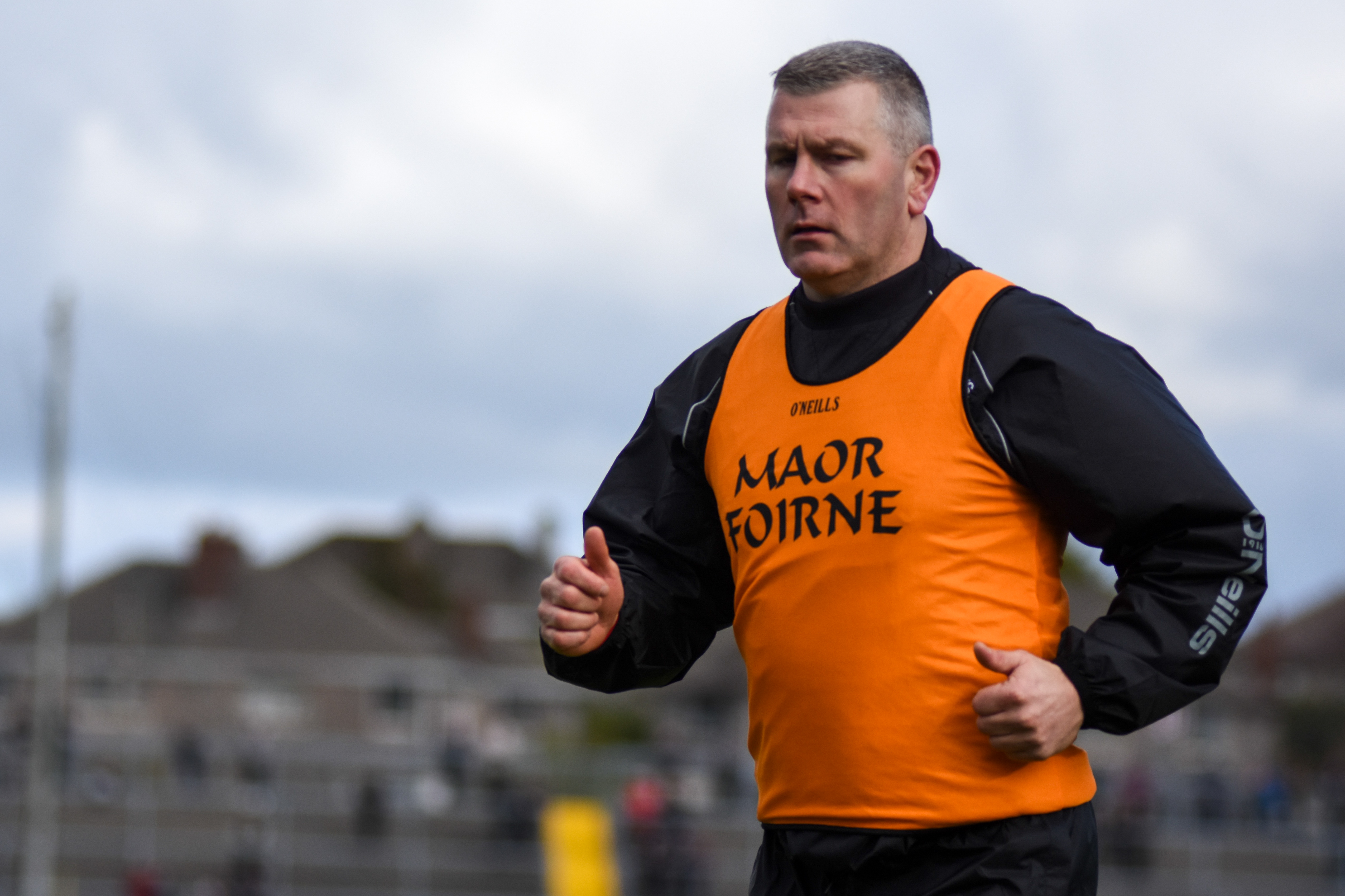 Diarmuid O'Sullivan acting as a selector for Cork against Galway in the 2016 National Hurling League at Pearse Stadium